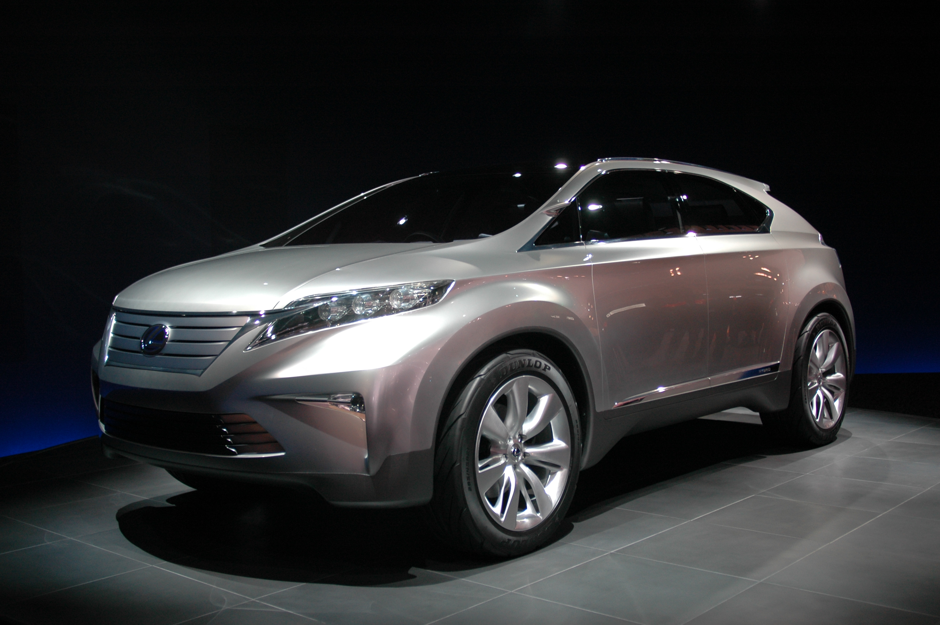 Lexus LF-Xh